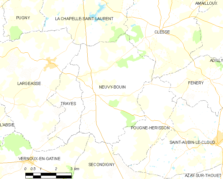 Map of French municipality Neuvy-Bouin